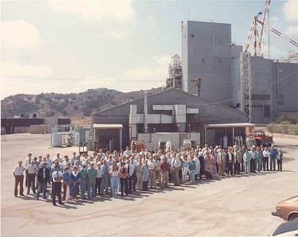 Group photo of Energy Technology Engineering Center employees in 1989. The Sodium Pump Test Facility can be seen in the far background. The Energy Technology Engineering Center was located in the Santa Susana Field Laboratory, Eastern Ventura County, California.